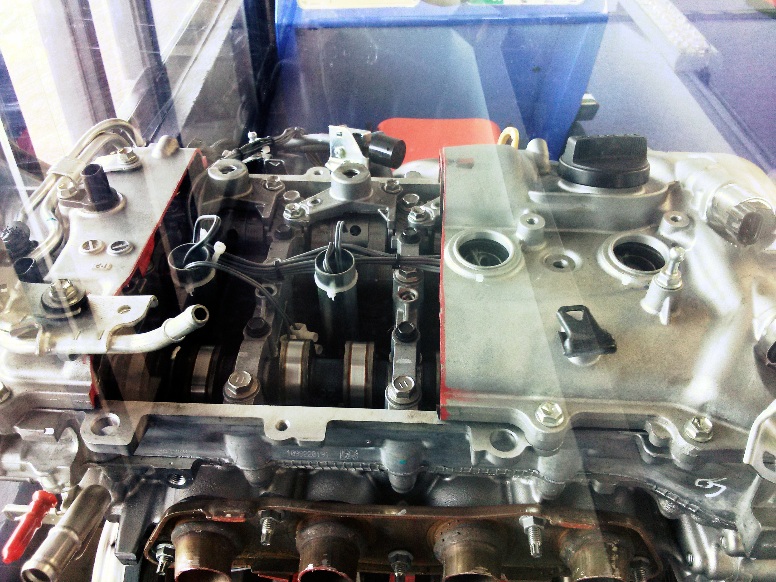 Toyota ZR engine VVT-i valve cutaways taken in Techniquest Glyndŵr in Wrexham